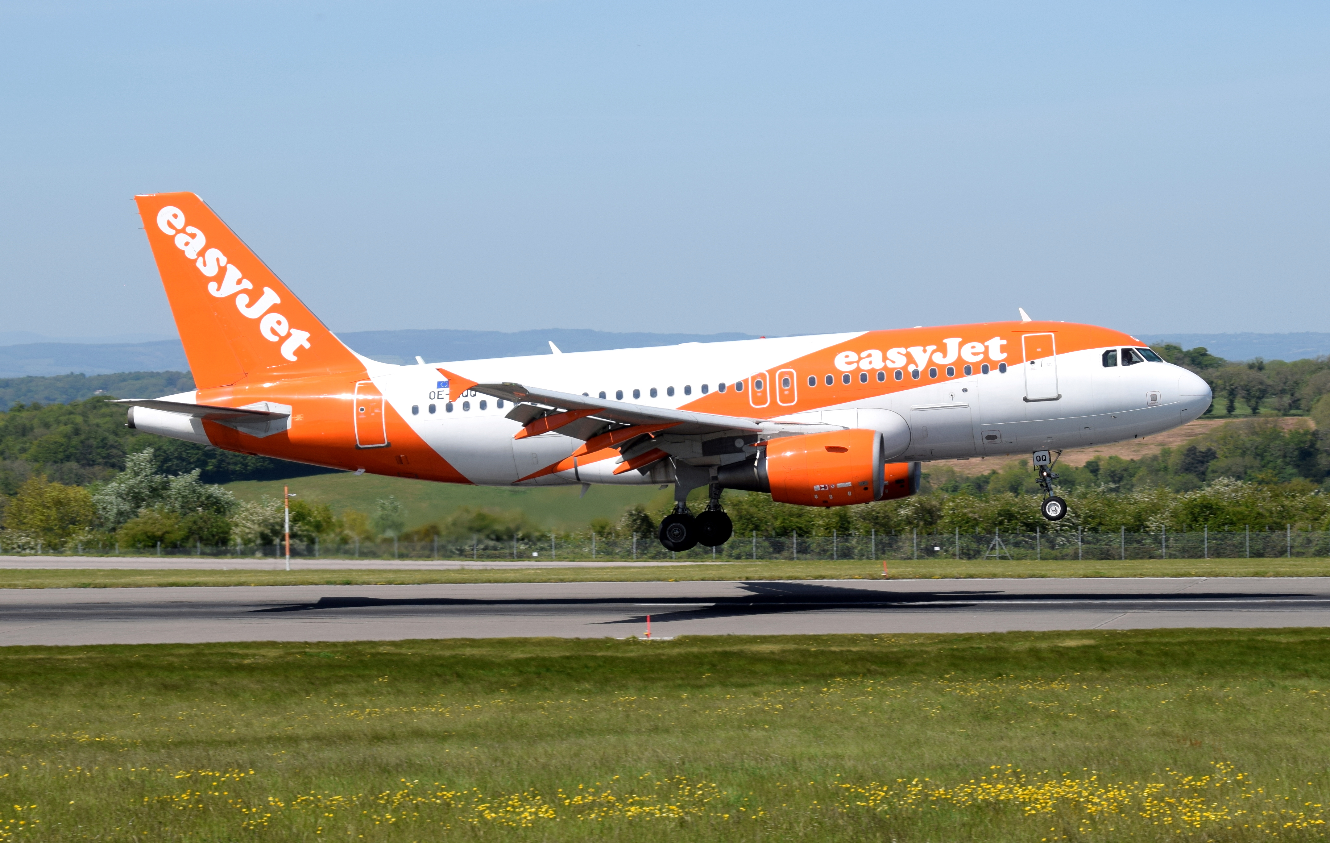 EasyJet Europe Airbus A319-100 (OE-LQQ) arrives Bristol Airport, England. This aircraft is registered in Austria. Former registration G-EZFG.